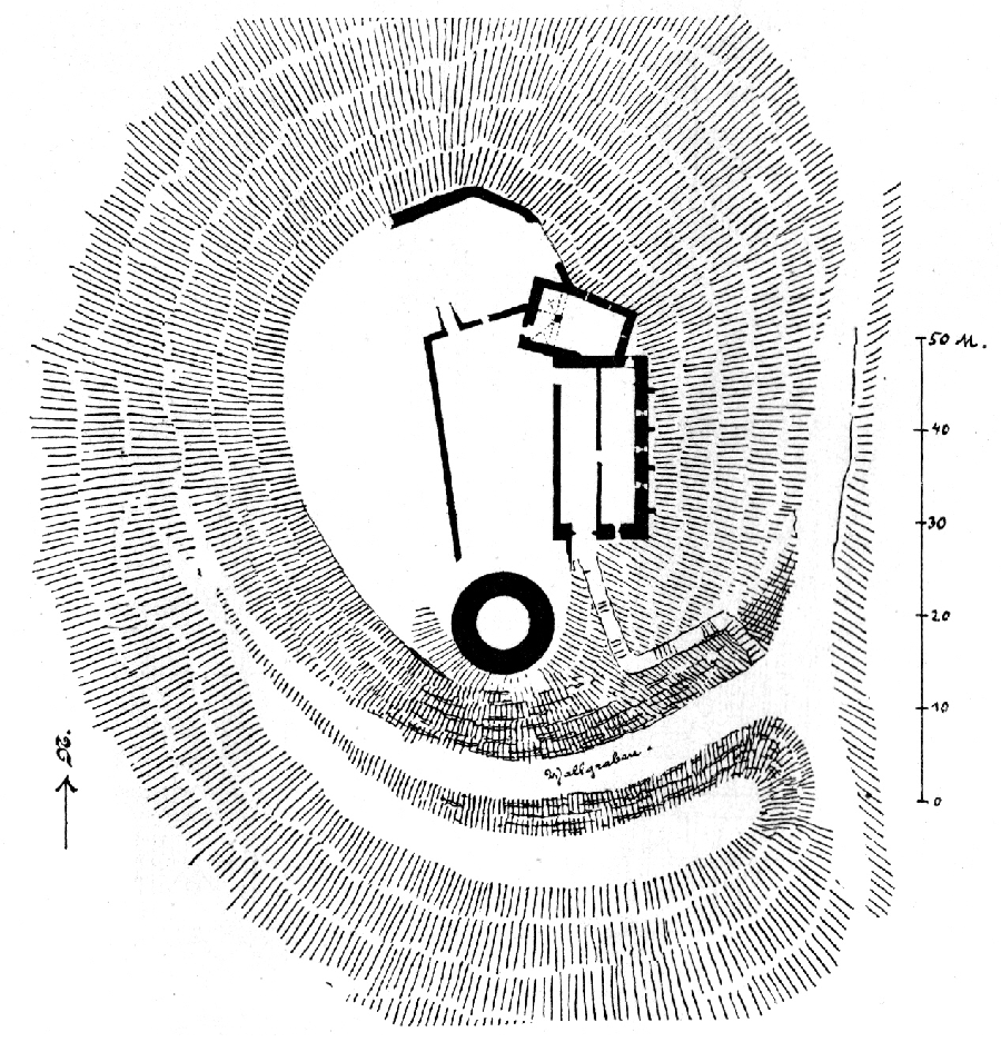 A map of Rothenburg castle in Thuringia, Kyffhäuser mountains.